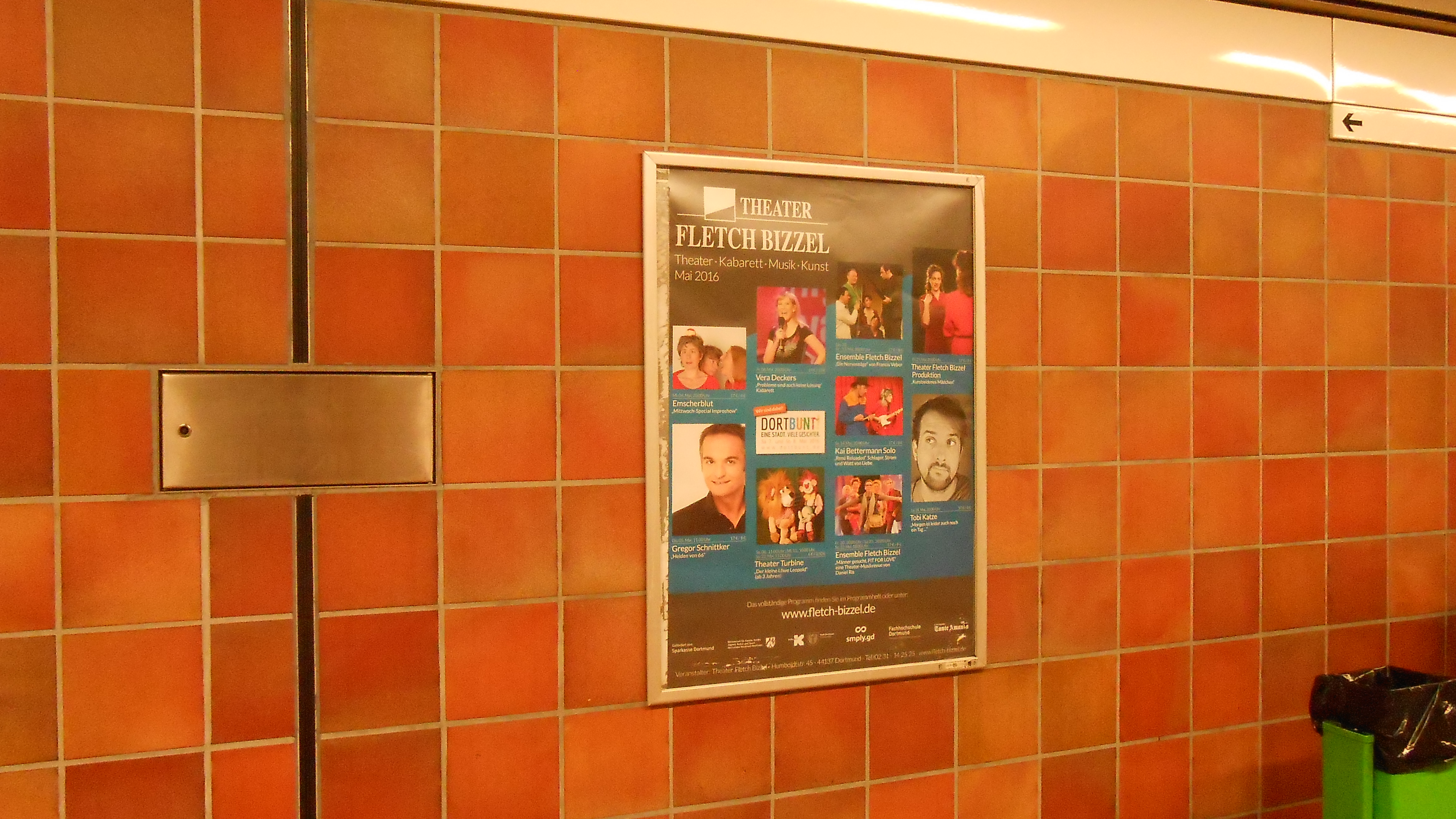 Poster of the Fletch Bizzel theater in Dortmund, announcing their programming for may 2016. Seen in may 2016 in the subway station Münsterstraße in Dortmund.